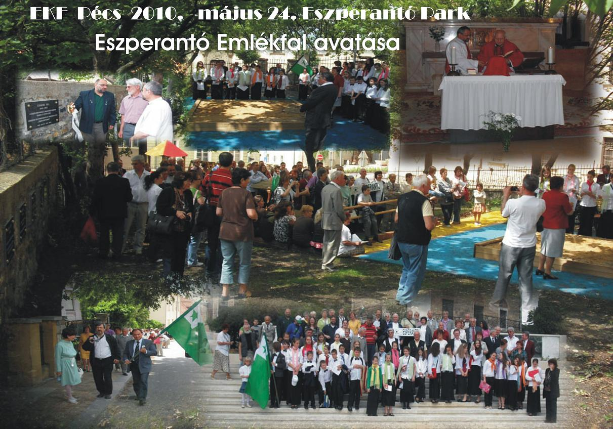 The inauguration ceremony of the Park Esperanto Pécs